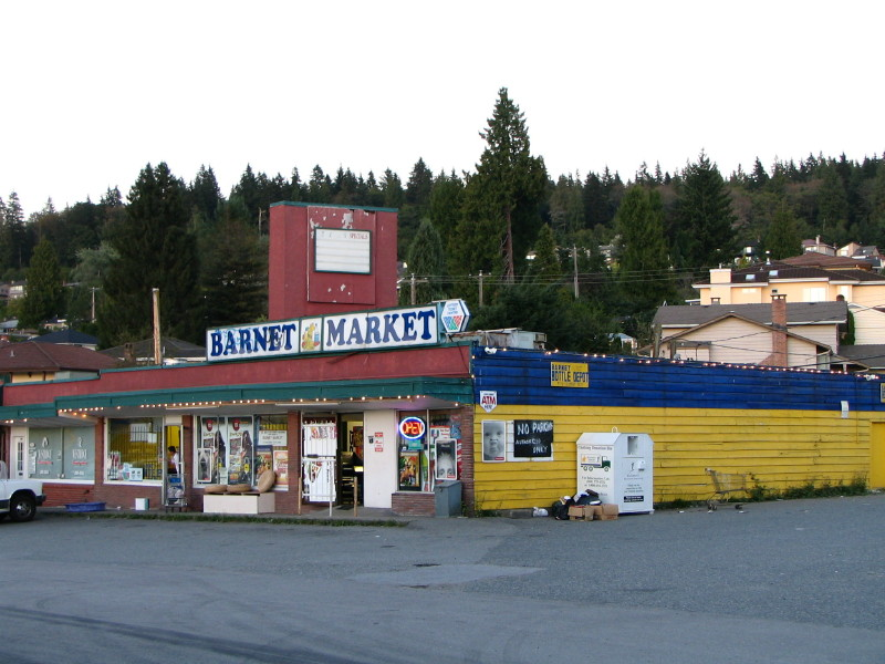 This image was created by me, Flying Penguin of Pacific Spirit Photography ( of Burnaby, BC, Canada